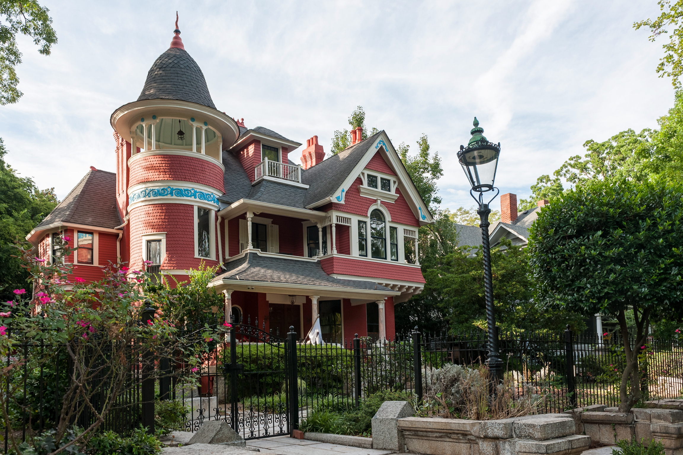 Exterior of the Beath Dickey House in 2018